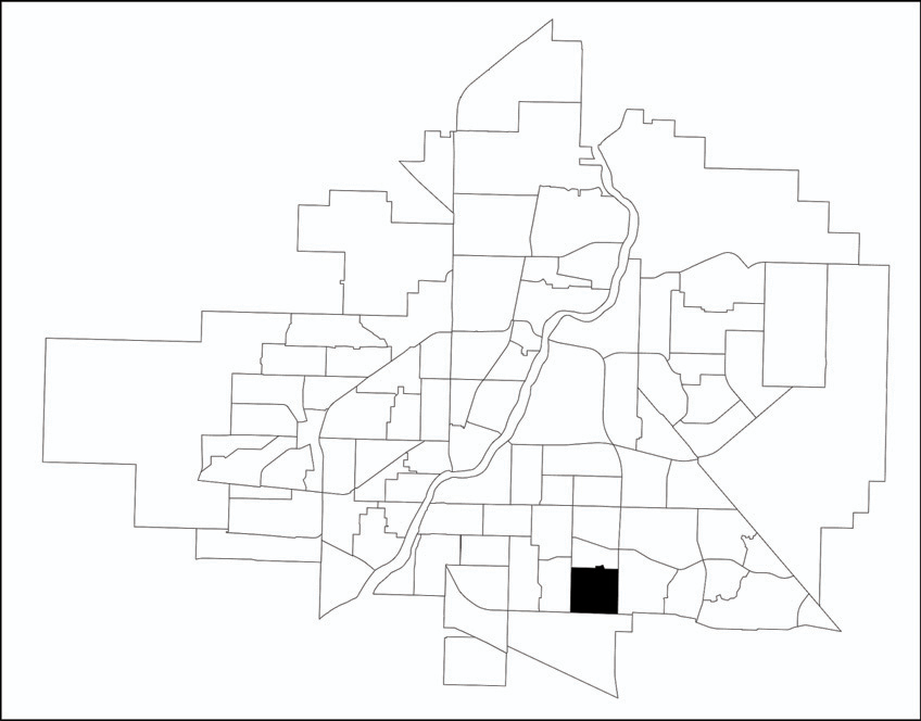 A map showing the location of the Eastview neighbourhood in relation to the other neighbourhoods in Saskatoon.